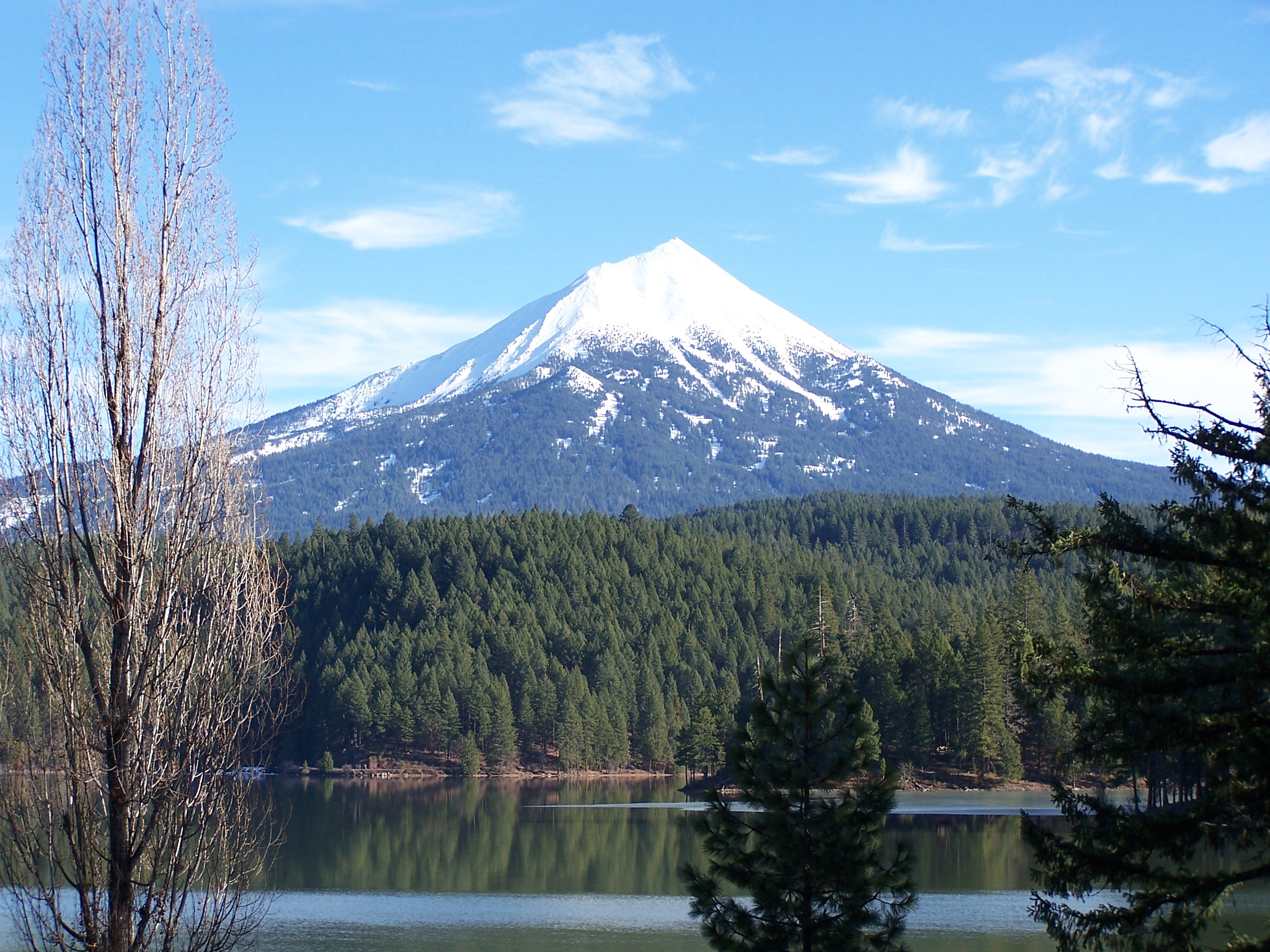 Photo of Mount McLoughlin from across Willow Lake, Oregon.